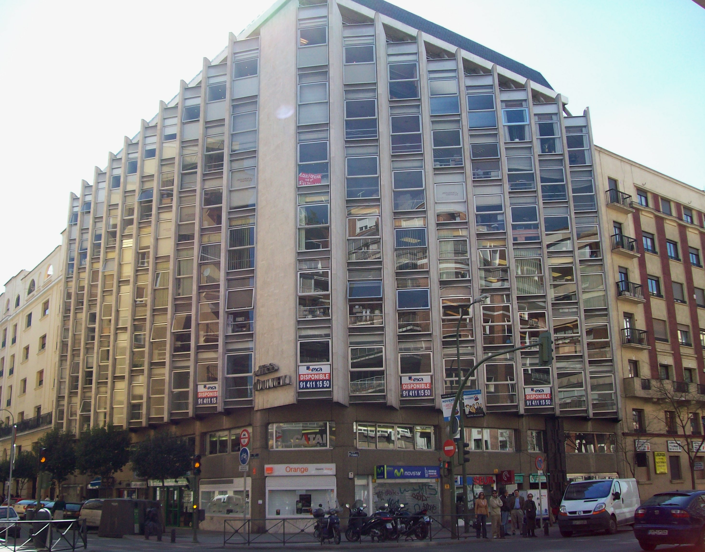 Building at 34 Calle de O'Donnell (street, Retiro district) in Madrid (Spain). It was projected in 1964 by architect Antonio Lamela Martínez and built from 1964 to 1965.